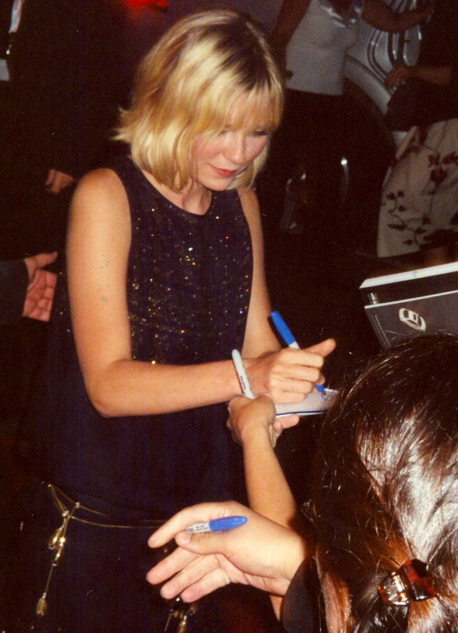 Kirsten Dunst at the 2005 Toronto International Film Festival promoting Elizabethtown.Elizabethtown_012